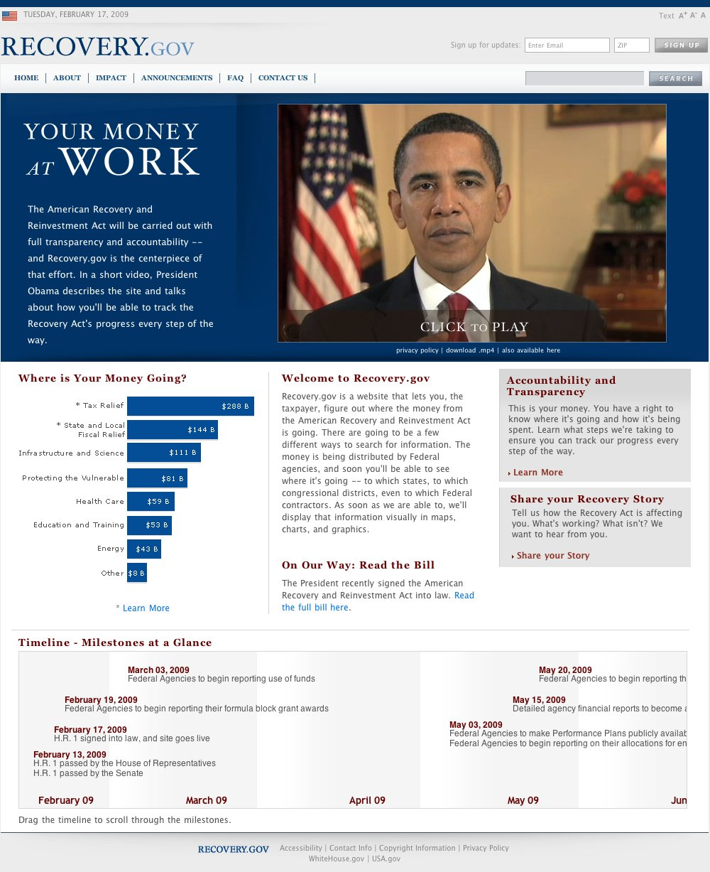 Screenshot of , which went live after President Barack Obama signed the American Recovery and Reinvestment Act of 2009. The website is meant to detail where the money allocated by the ARRA is distributed.